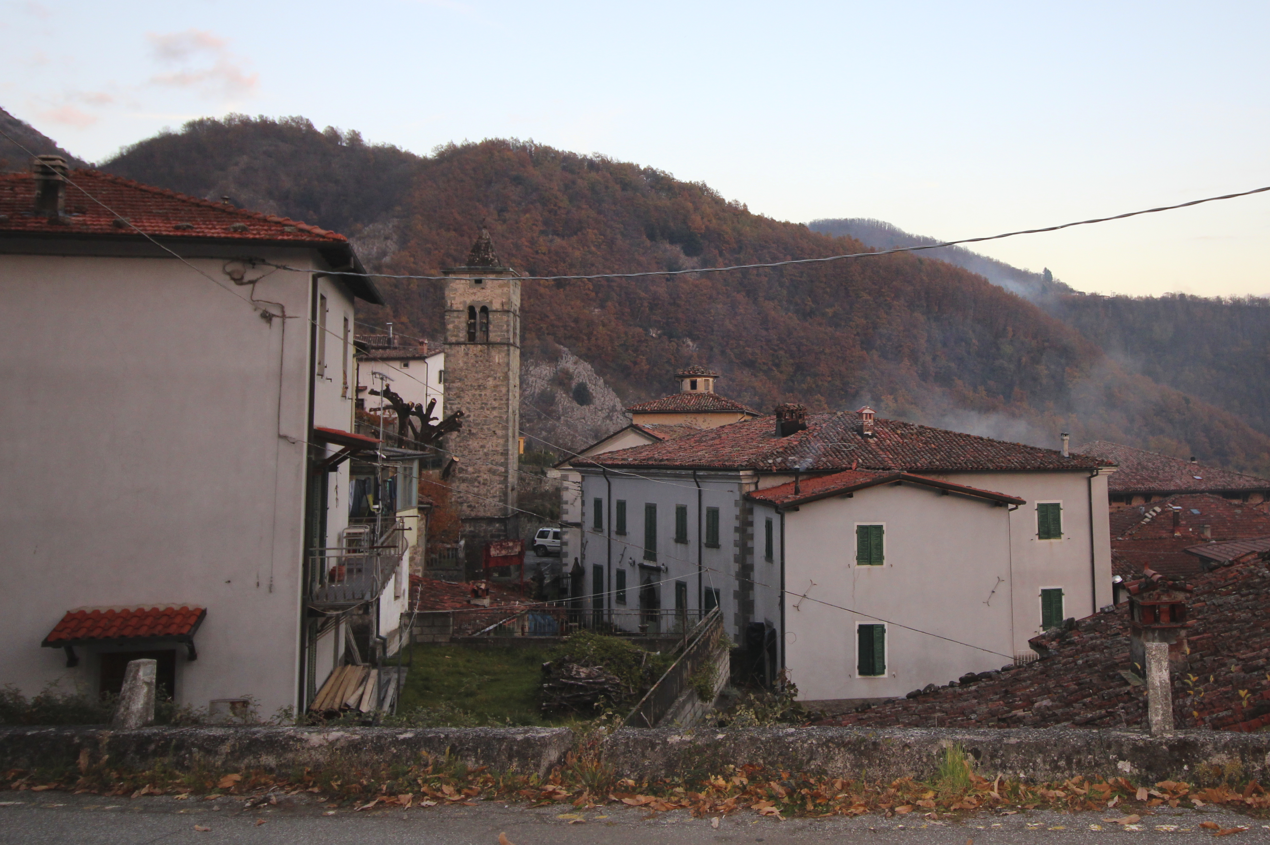 Canigiano, hamlet of Villa Collemandina, Province of Lucca, Tuscany, Italy